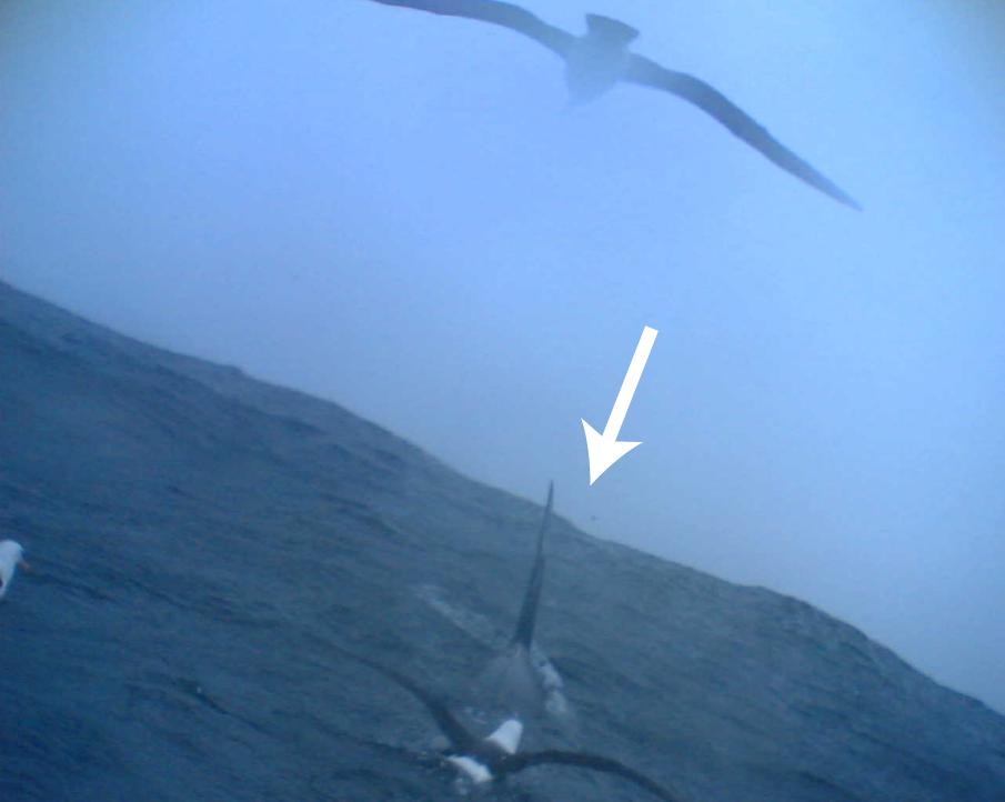 Black-browed albatrosses (Thalassarche melanophrys) associating with a killer whale to profit from pieces of food left by the whale. Picture taken by a albatros-borne camera.